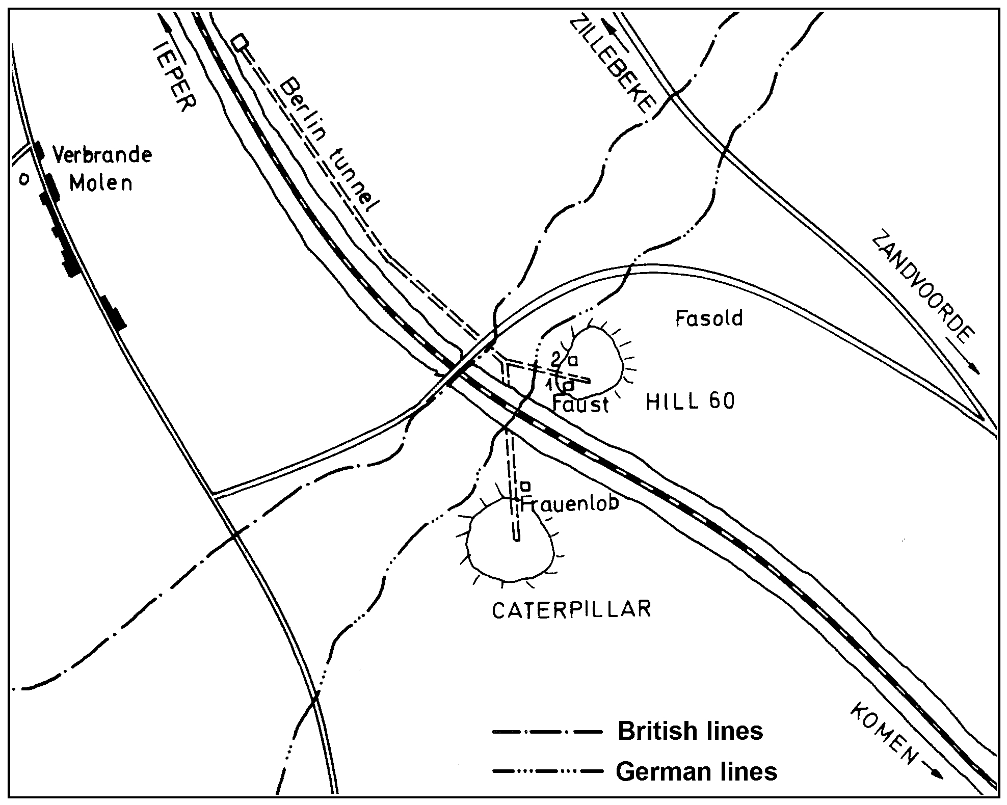 Plan of the mines at Hill 60, part of the mines placed by the tunnelling companies of the Royal Engineers in the Battle of Messines (1917). This drawing is based on the plans published in Roger Lampaert, De Mijnenoorlog in Vlaanderen 1914–1918, Roesbrugge/Belgium (Drukkerij Schoonaert) 1989.